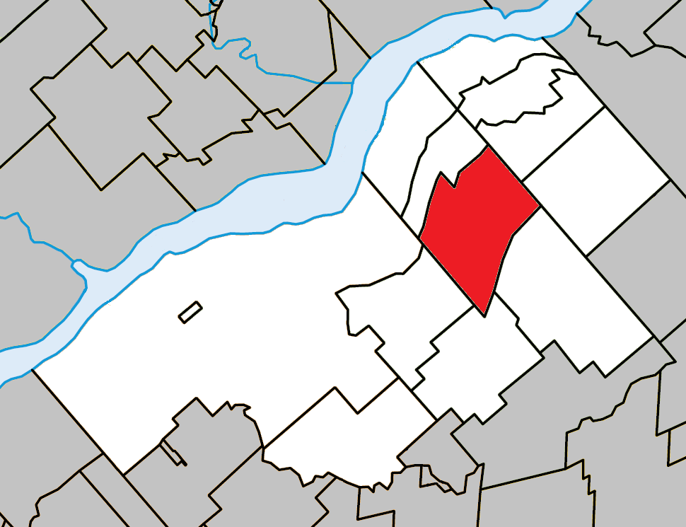 Location of Sainte-Sophie-de-Lévrard, Quebec within Bécancour Regional County Municipality.